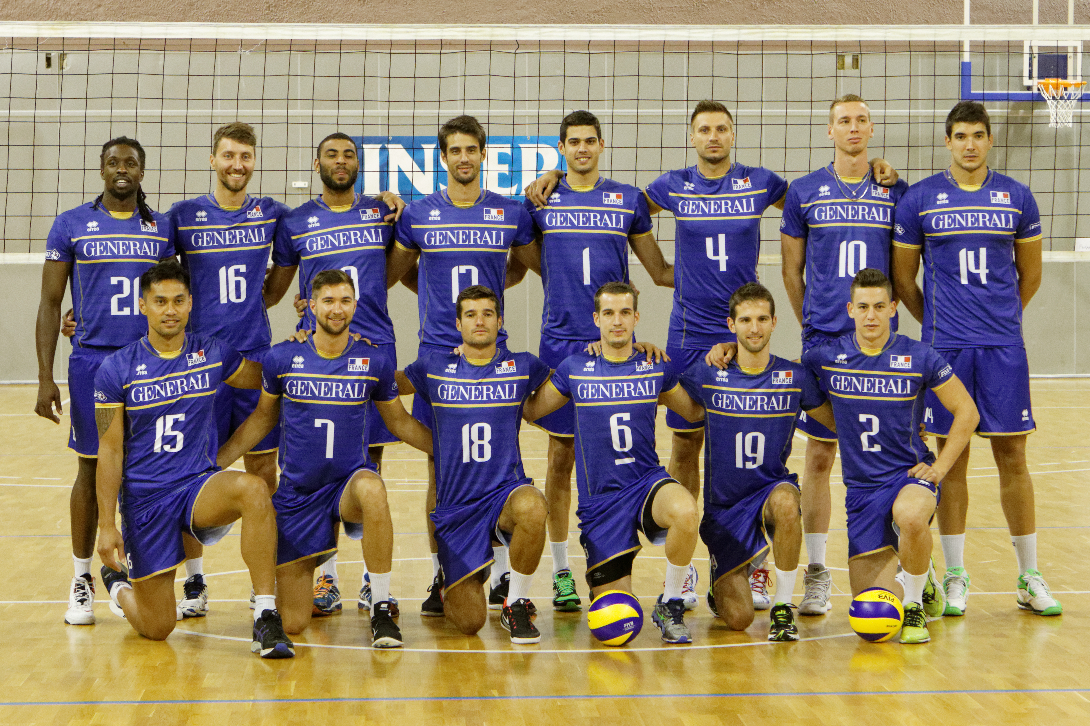 France men's national volleyball team, press conference before the FIVB Volleyball Men's World Championship, 26 August 2014.